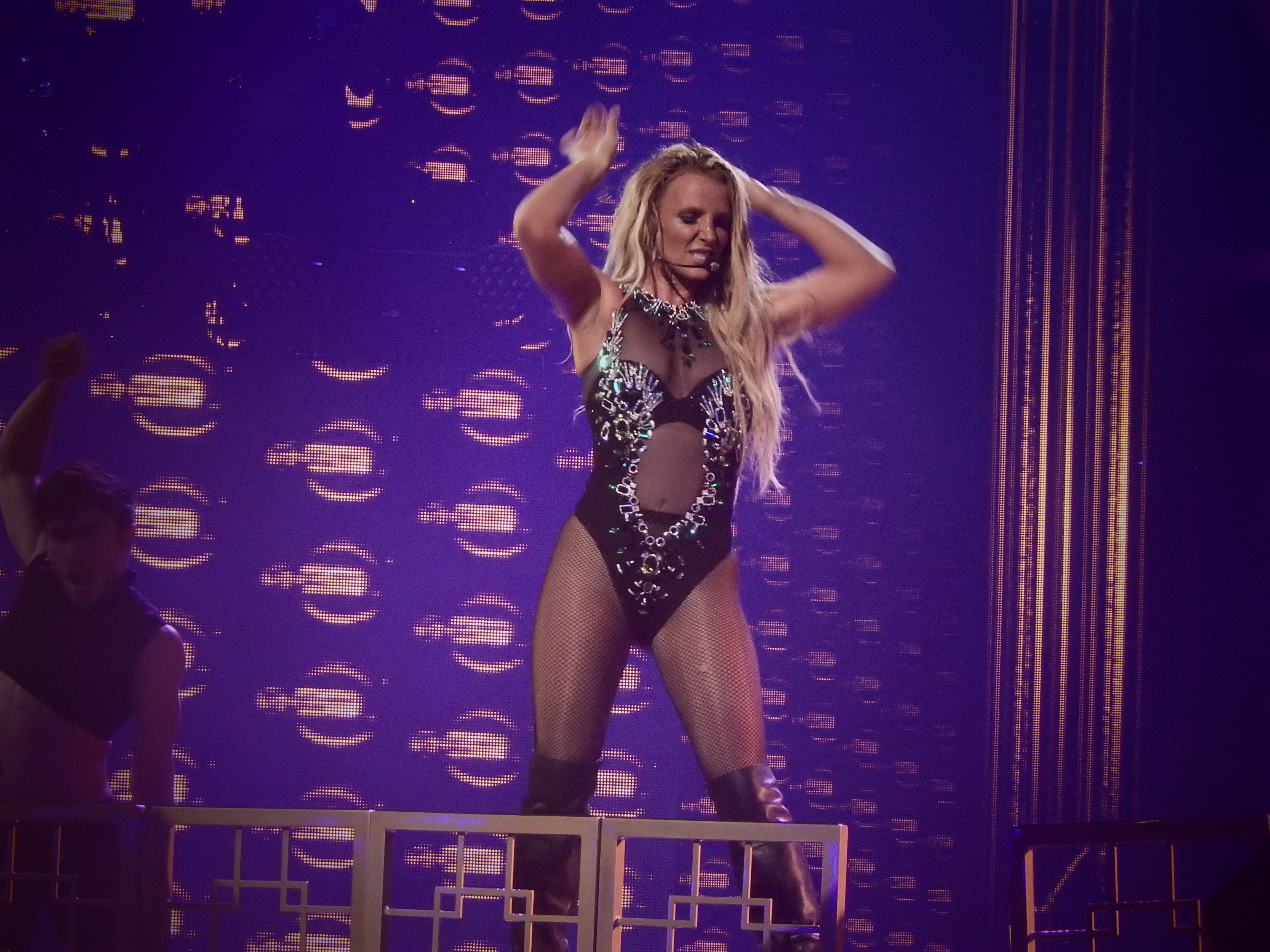 Britney Spears, Roundhouse, London (Apple Music Festival 2016)